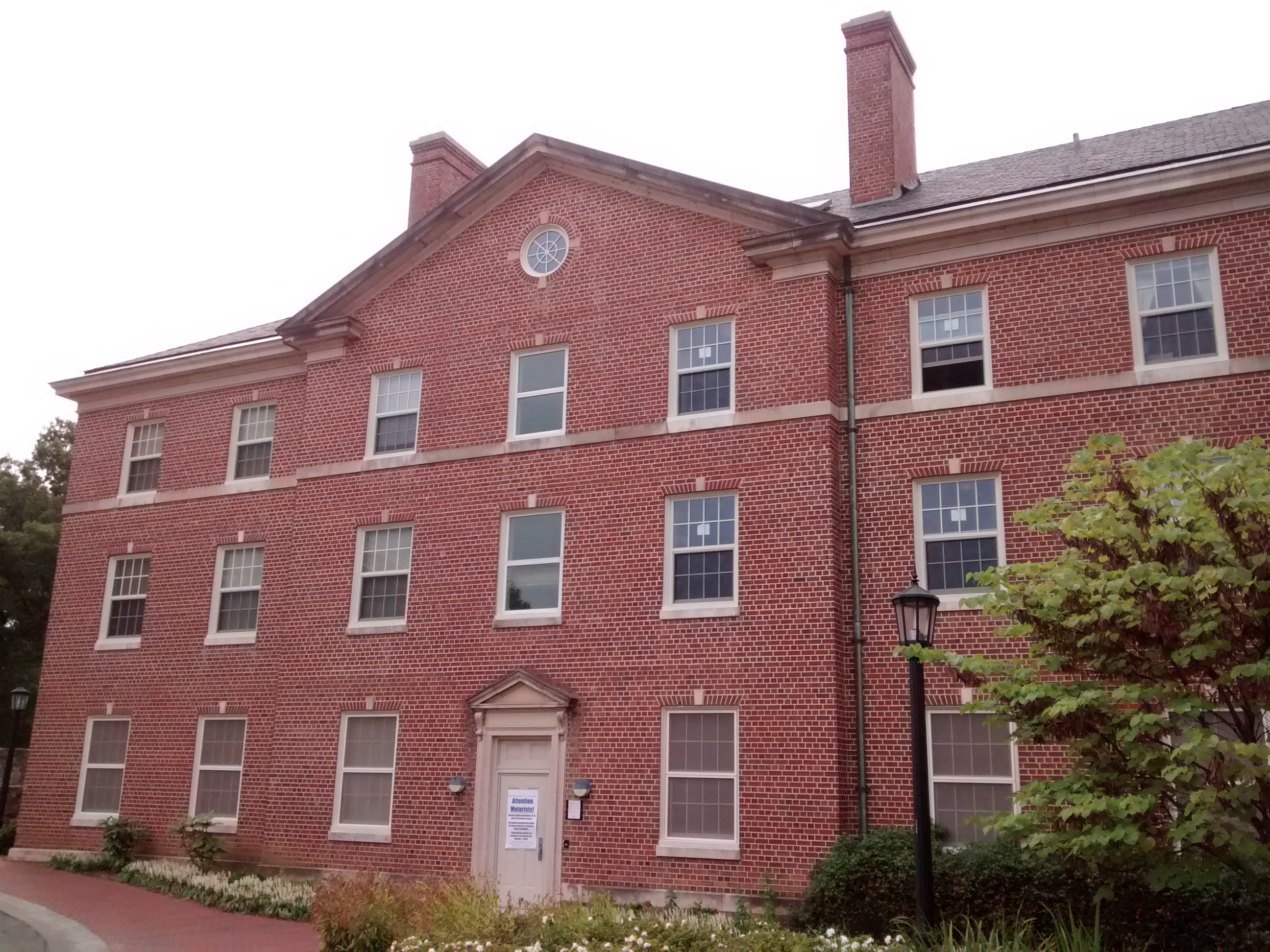 Alexander Residence Hall at the University of North Carolina at Chapel Hill.